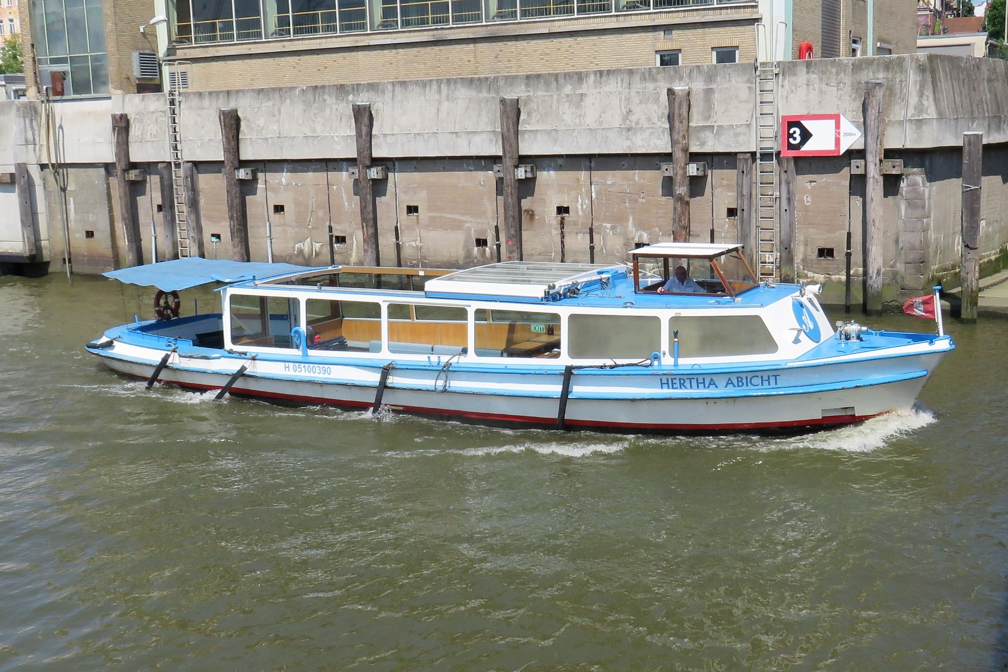 Tour boat Hertha Abicht in Hamburg